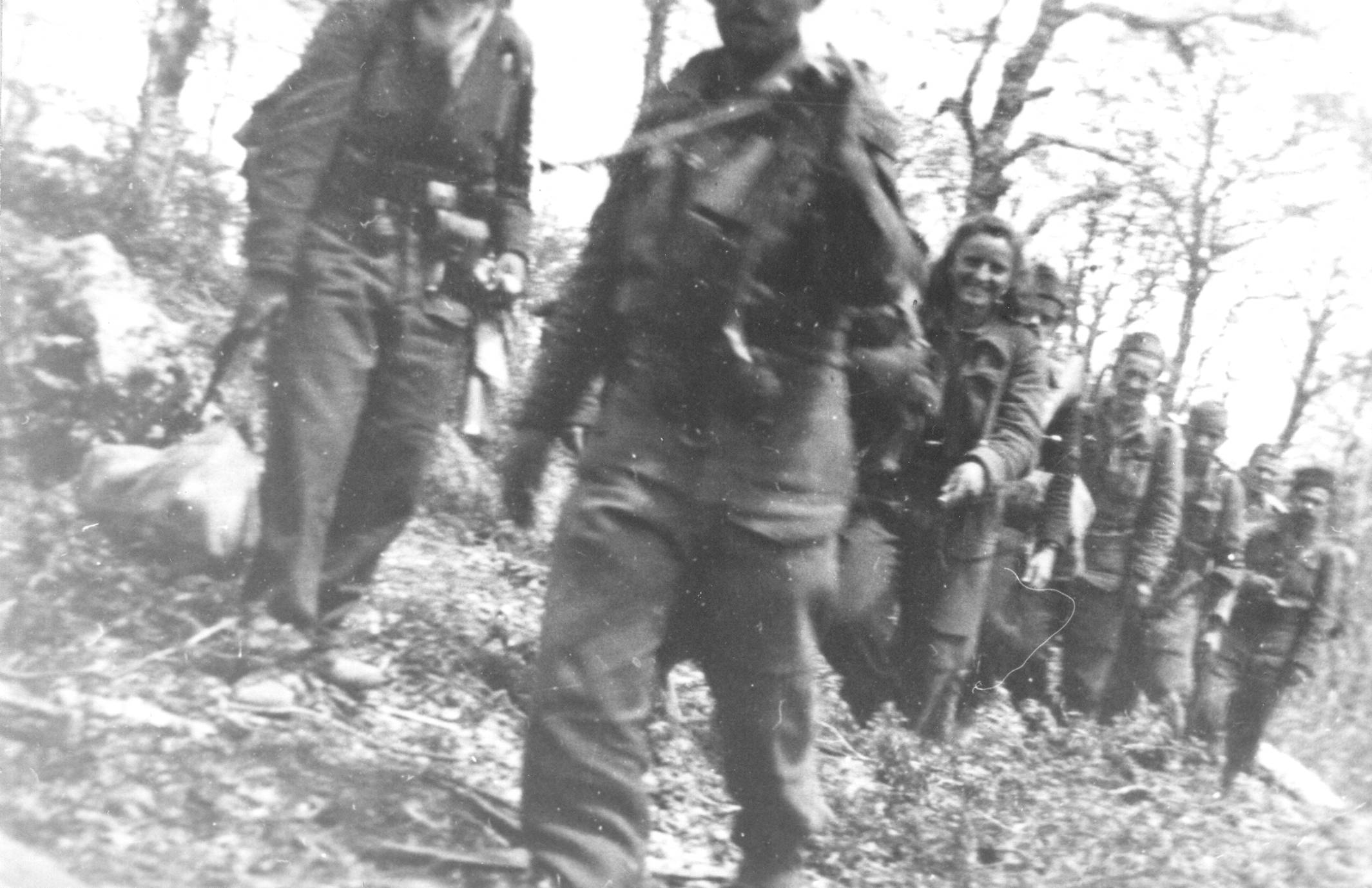 Units of the First Macedonian-Kosovo brigade on Karaorman mountain in 1944.